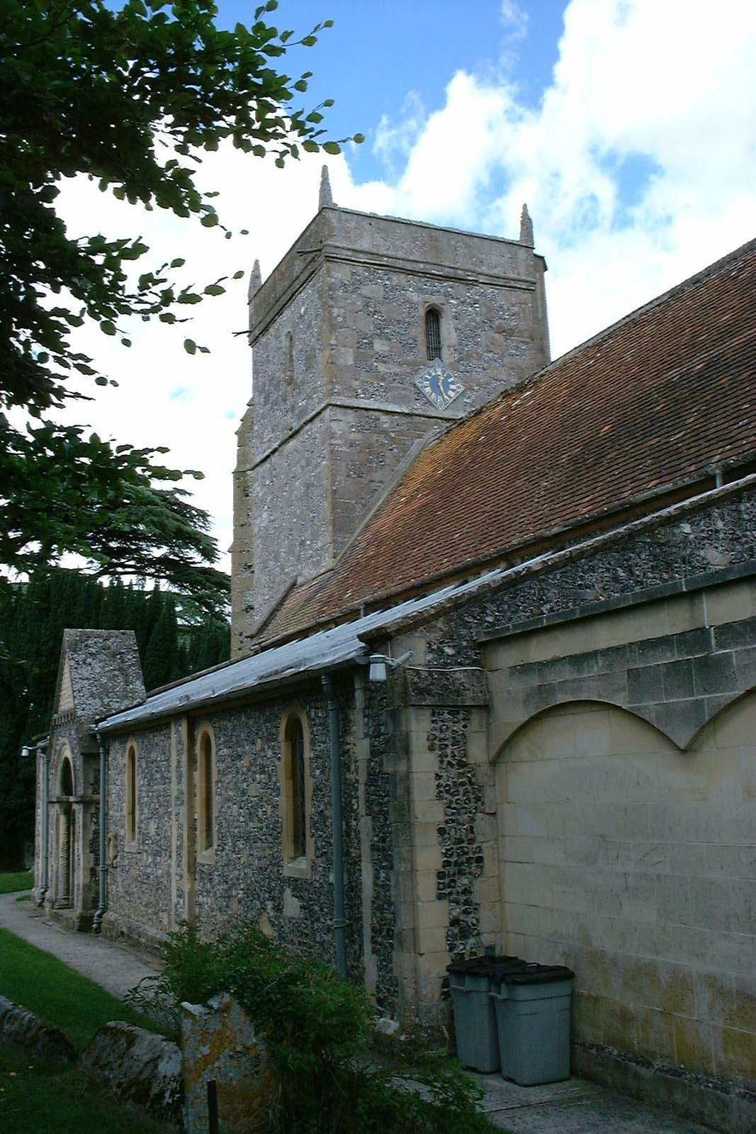 South aisle and west tower of All Saints' parish church, Durrington, Wiltshire, seen from the east